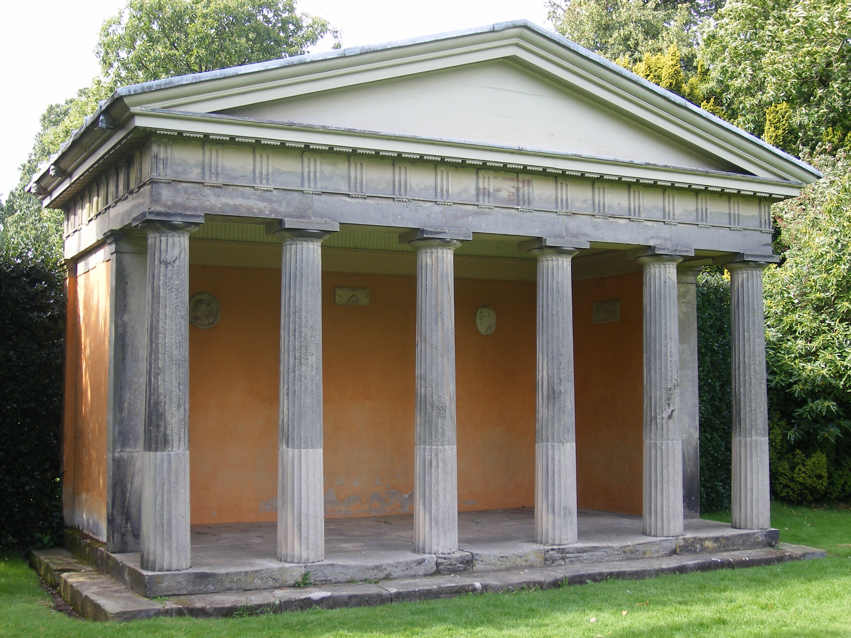 Built round about 1760, this is one of two copies of the Temple of Hemphaistos in Athens by James 'Athenian' Stuart.